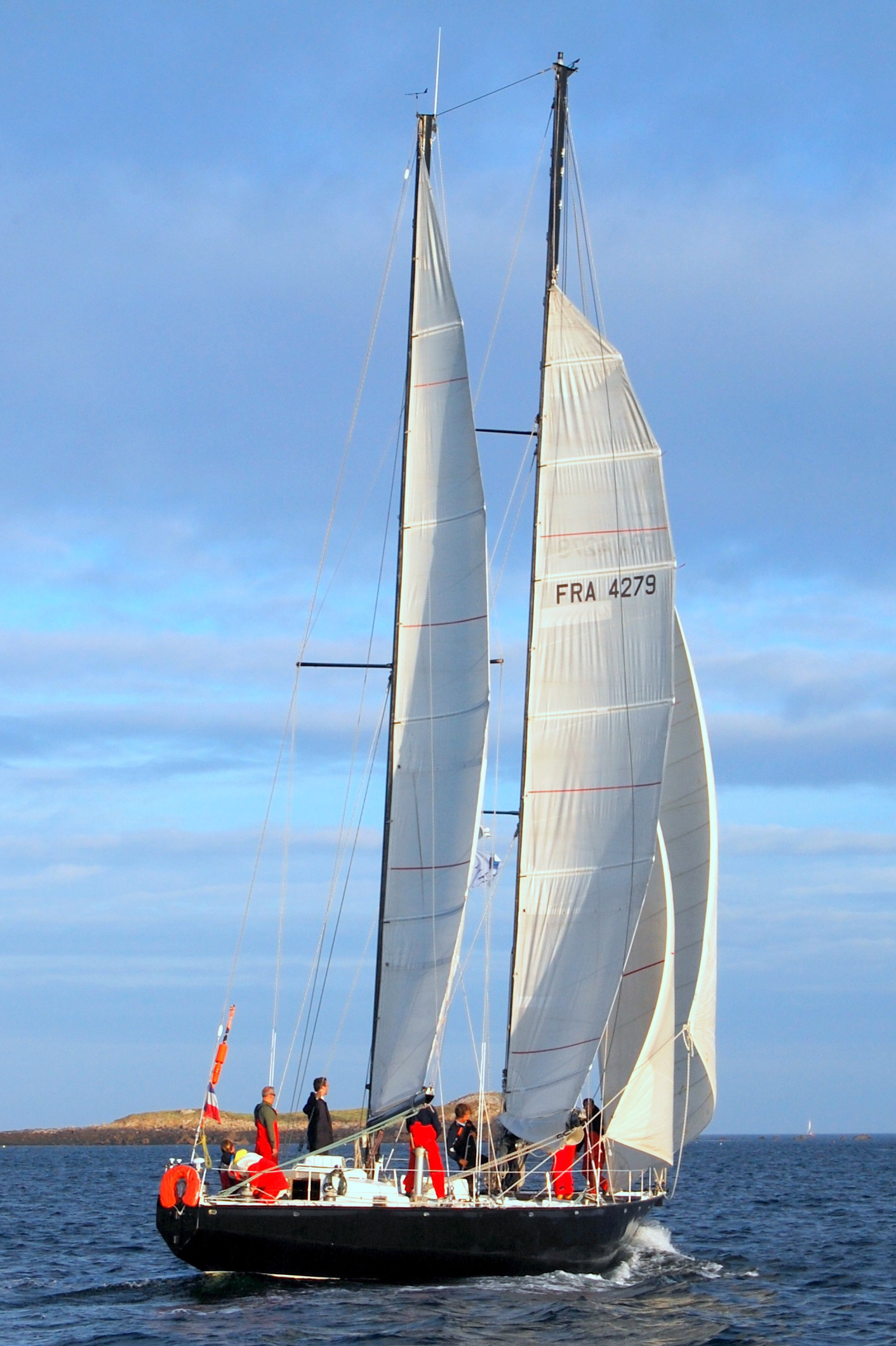 Pen Duick III leaving the harbour of Aberwrac'h (Britanny, France)